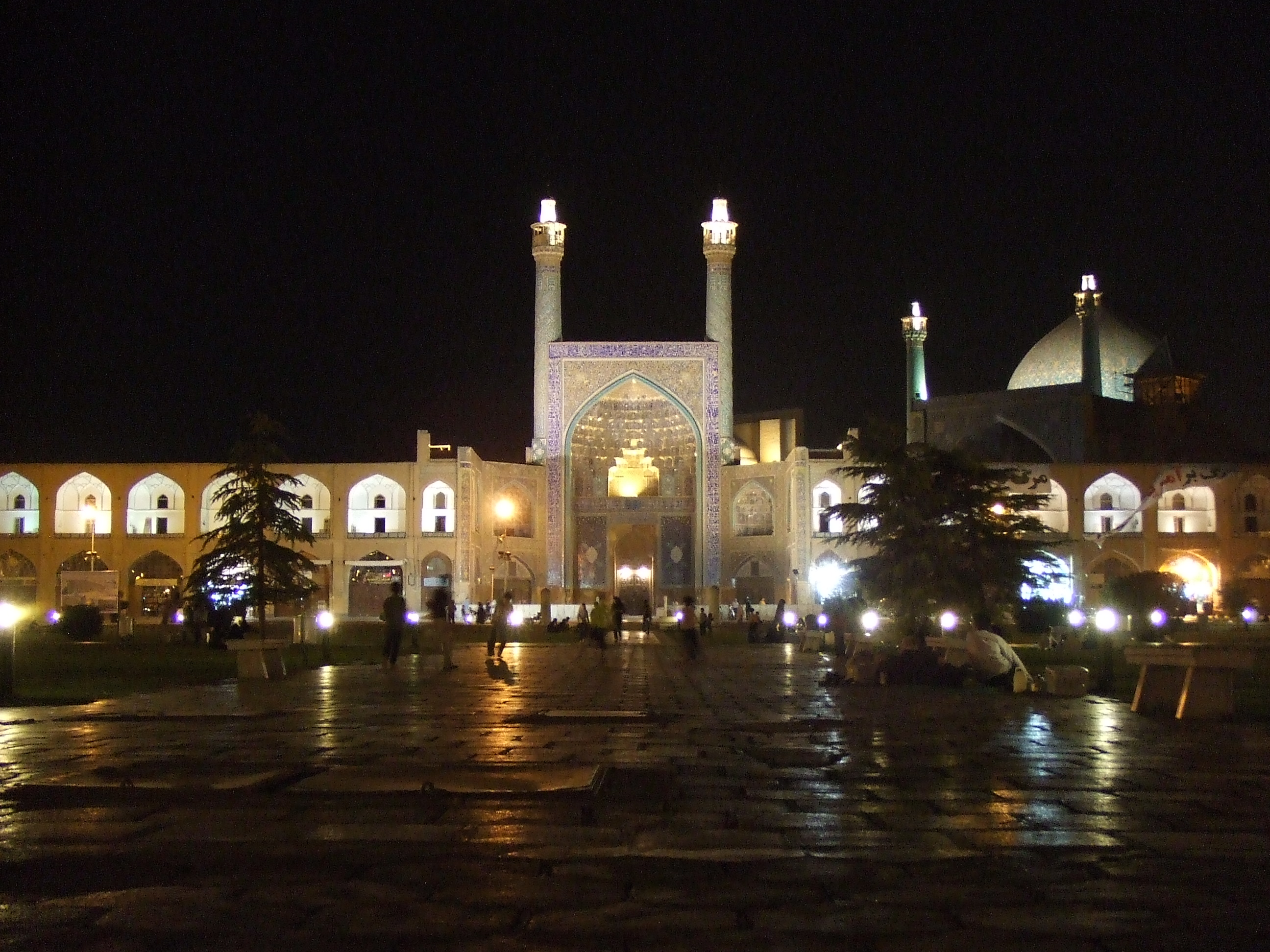 Masjed-e_Shah at night